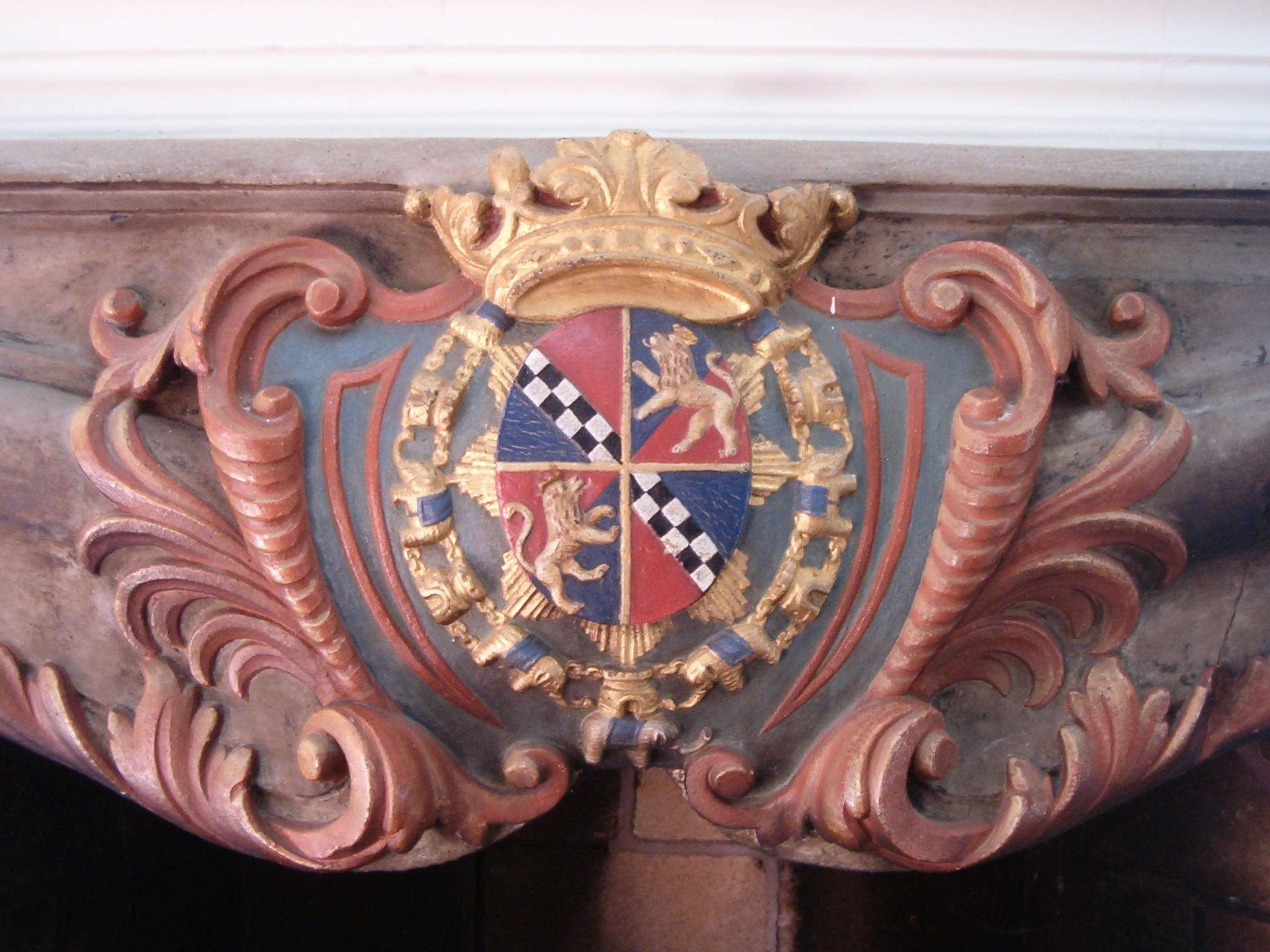 Coat of arms of Iver Rosenkrantz (born 1674), Danish statesman and estate owner. Photo from Rosenholm Castle, Denmark